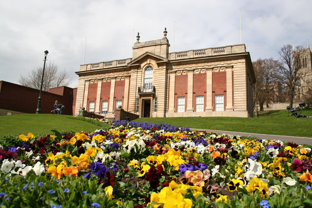 Usher Gallery and Spring Flowers The Usher Art Gallery in Temple Gardens with spring flowers in the foreground